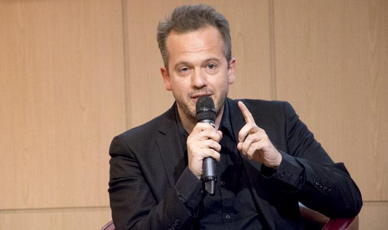 Photo of the pianist composer and conductor Johan Farjot